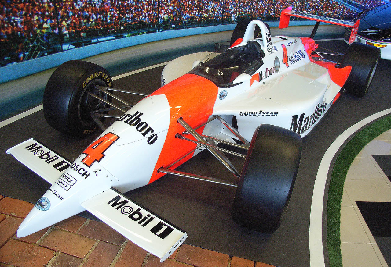 Penske PC-22 (#4, Driver: Emerson Fittipaldi, Engine: Chevrolet): Won the Indianapolis 500 and runner-up in the CART World Series Season in 1993. Owner: Museu da Tecnologia da Ulbra